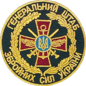 Sleeve patch for the Ukrainian General Staff